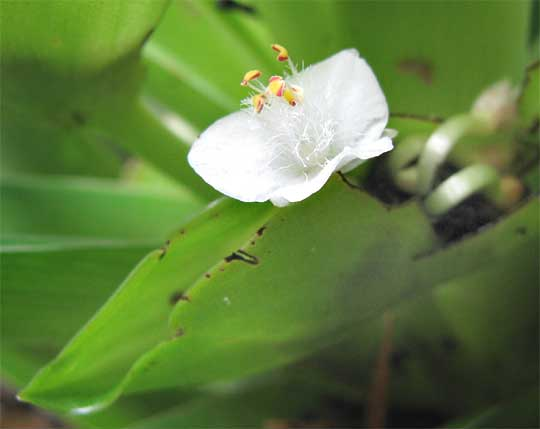 Tradescantia spathacea flowers. There is a large bract at the base of the flowers, and as flowers mature they move back, to the right of the photo. The bract looks like a boat, leading the the names, "Boat Lily" and "Moses-in-a-boat".